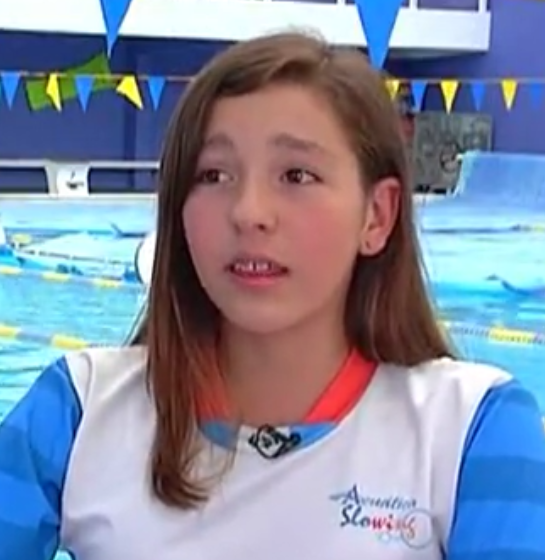 Clipped from cc by sa video by Fernando Valdes - Olympic Hopes: The story of Valerie Gruest and Cindy Toscano